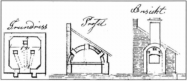 New oven 1884, extension of the building Dorfstr. 14 in Gömnigk. The village Gömnigk is a part of the town Brück in the district Potsdam Mittelmark, state Brandenburg, Germany, at the border to the natural preserve Naturpark Hoher Fläming.